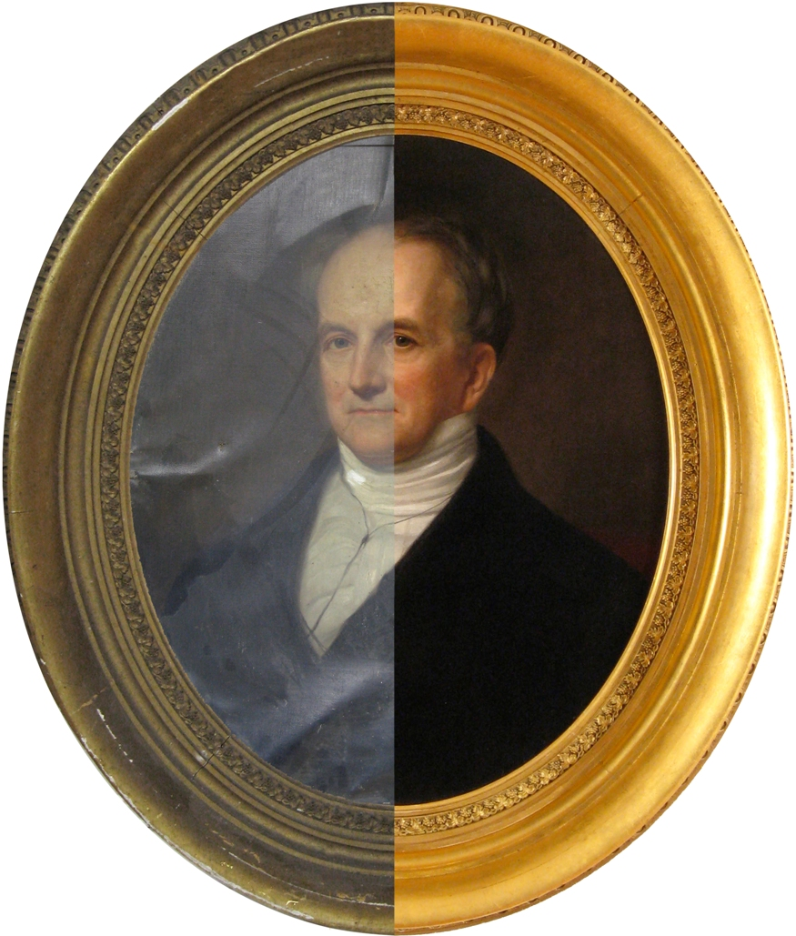 Abbott Lawrence by G.P.A. Healy, private collection, Hamilton, MA, 19th century painting and frame – before and after art restoration. image souse: Oliver Brothers Art Restoration and Conservation, Boston, MA